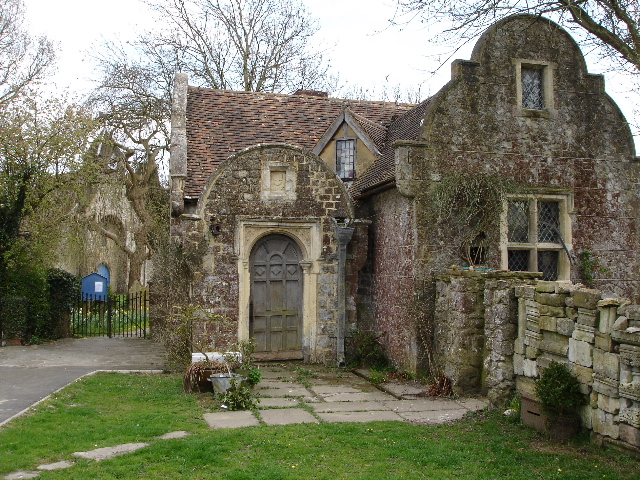 The School house This building dating from at least 1846, just outside the churchyard, was the schoolhouse, probably a church school as it has stained glass windows facing the path,it is now a residence